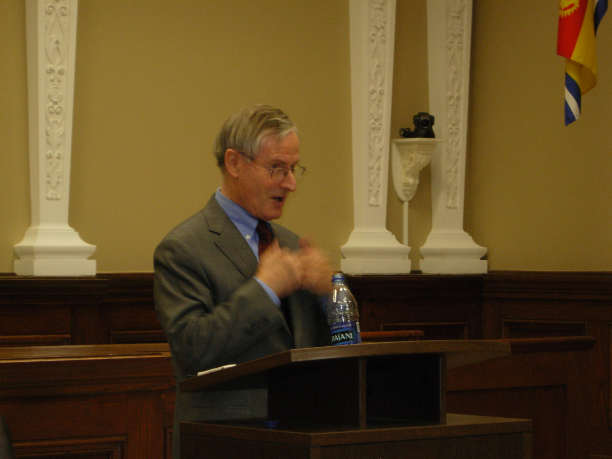 Peter Hogg speaking at UWO Law School